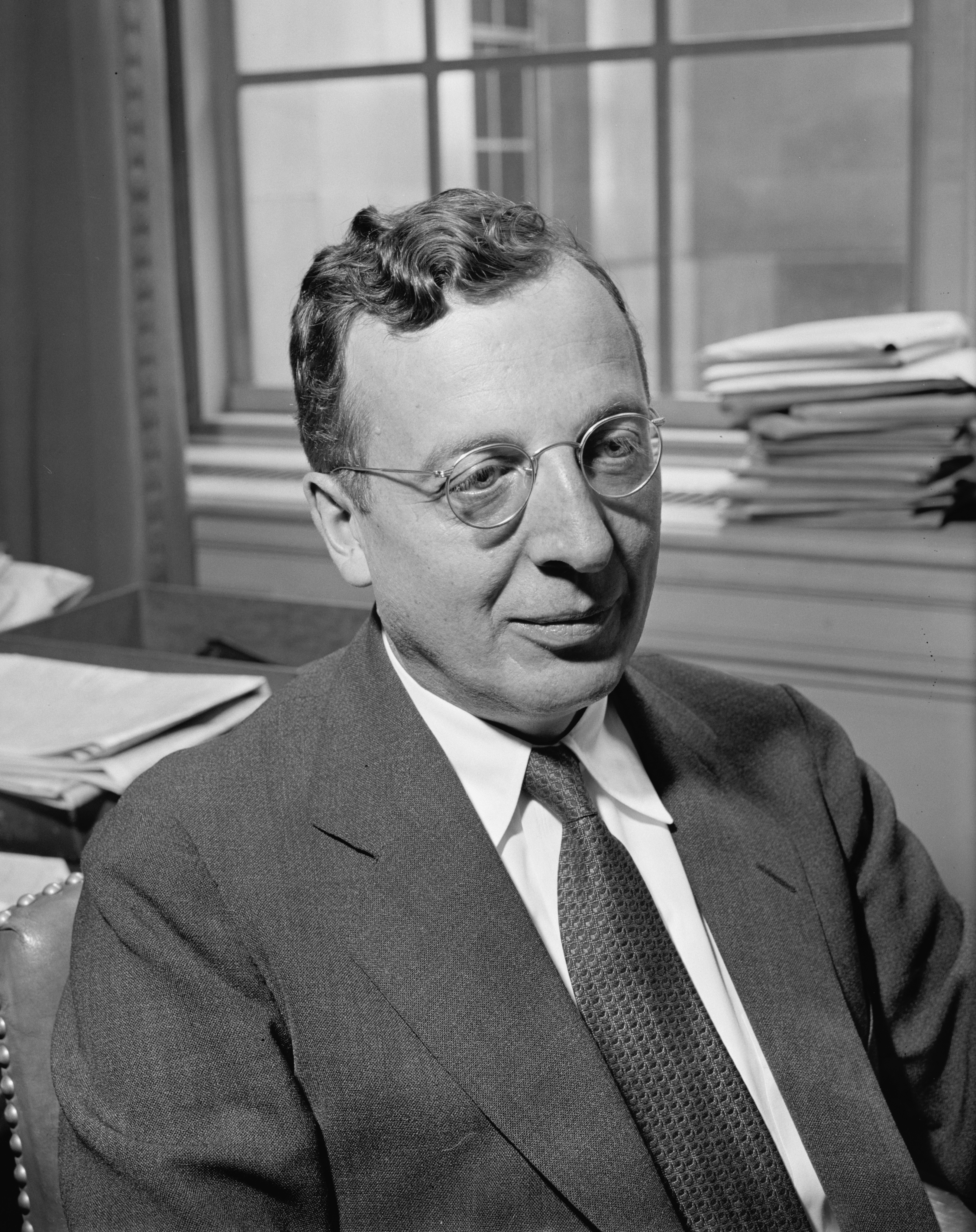 Title: Washington, D.C., July 20. A new informal picture of Max Lowenthal, counsel to the Senate interstate commerce sub-committee 'which' is investigating railroads, 7/20/39 Abstract/medium: 1 negative : glass ; 4 x 5 in. or smaller